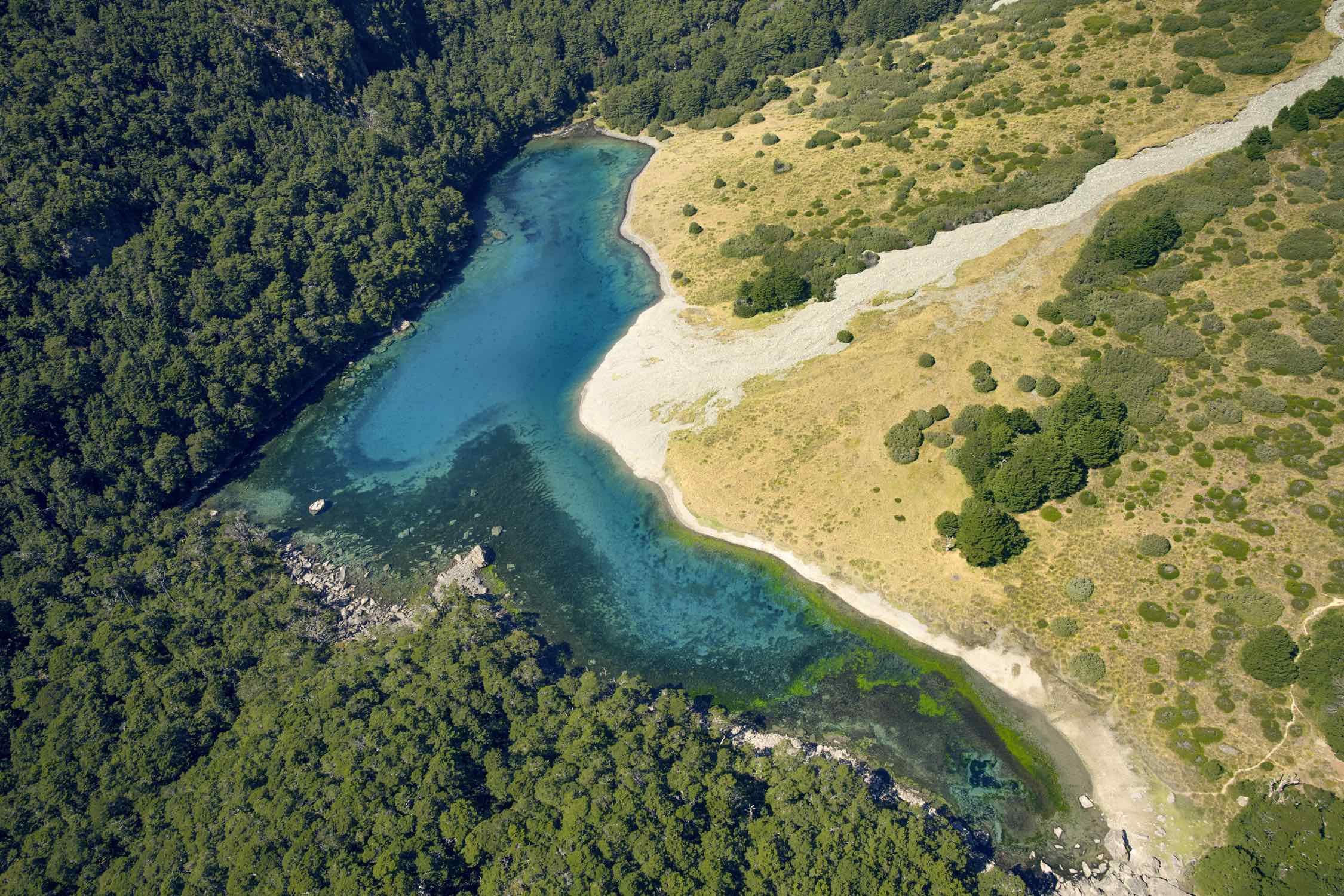 Rotomairewhenua taken from the air by Klaus Thymann